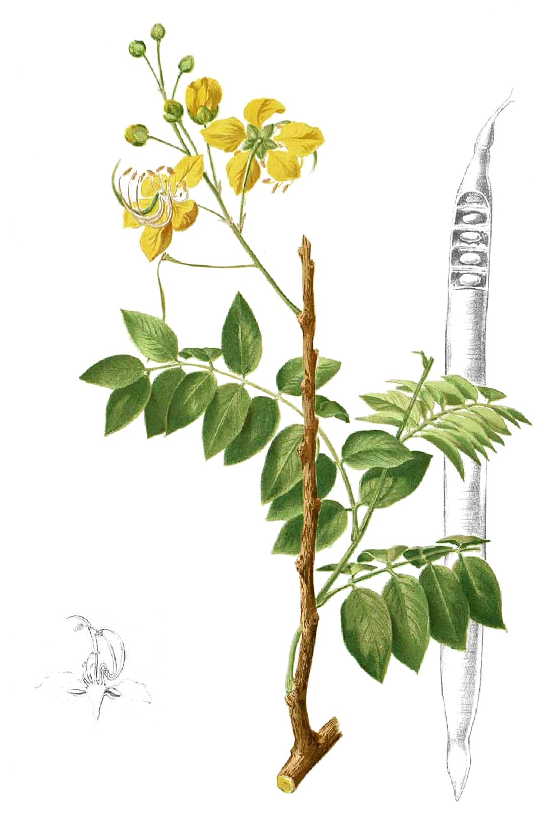 Cassia fistula, Plate from book